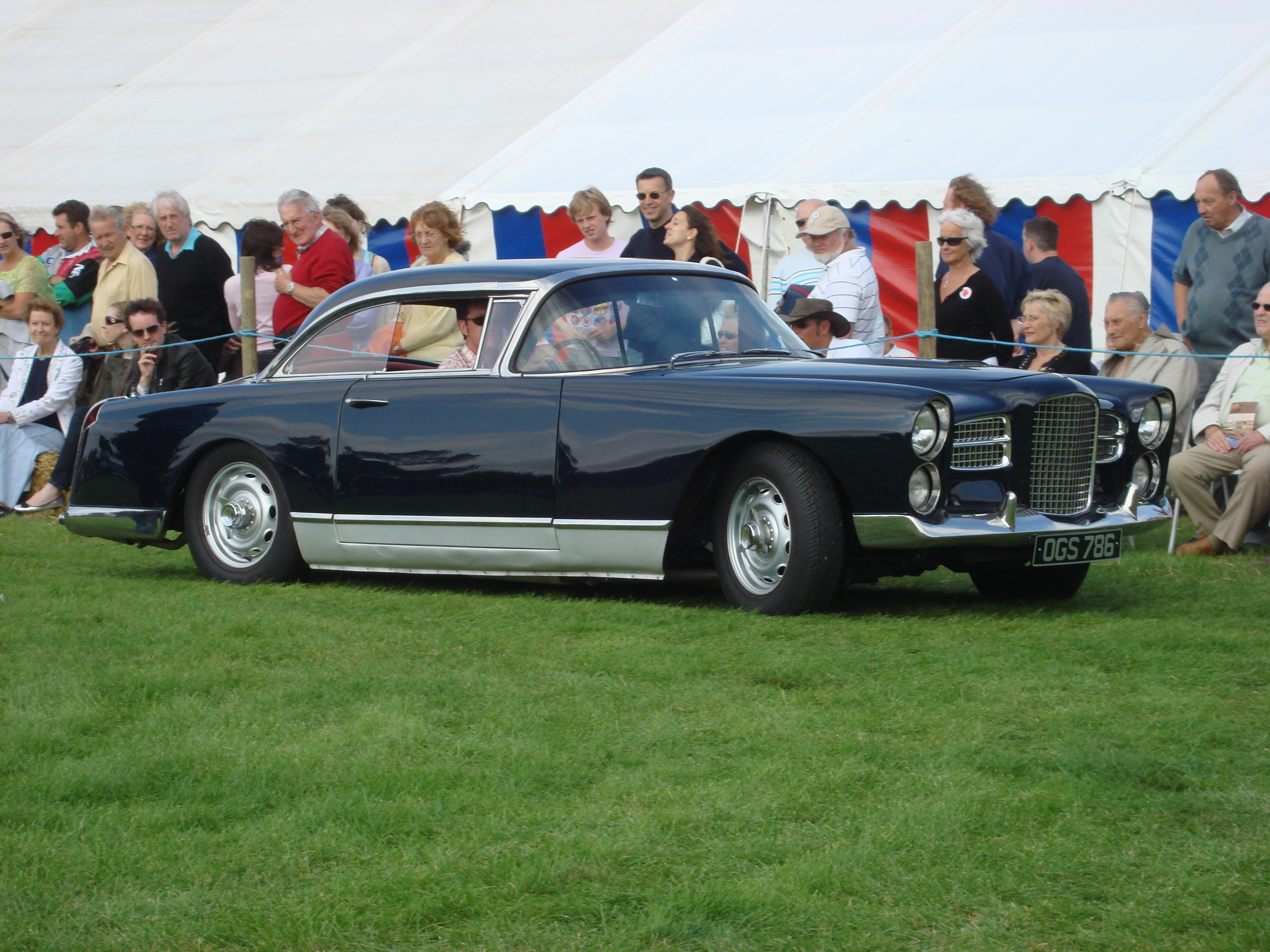 Facel Vega HK 500, french sportscar, made by Facel from 1958 to 1961 at a Suffolk Motor show